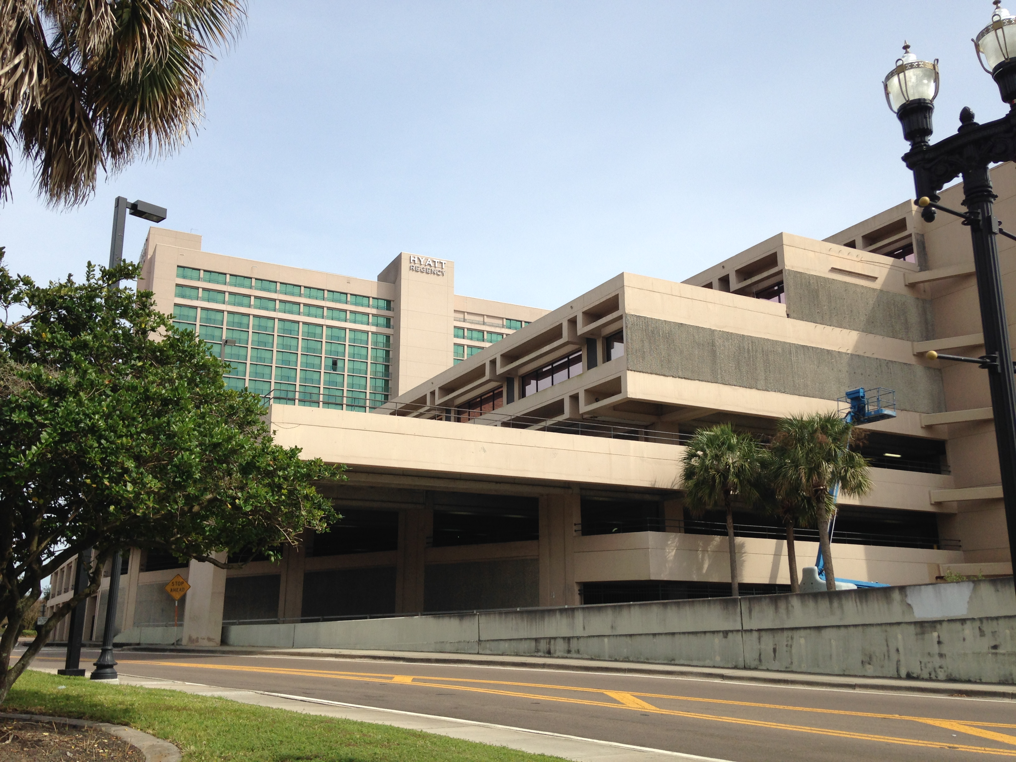 Hyatt Regency, Downtown, Jacksonville, Florida 32202. Former Daniel State Building.